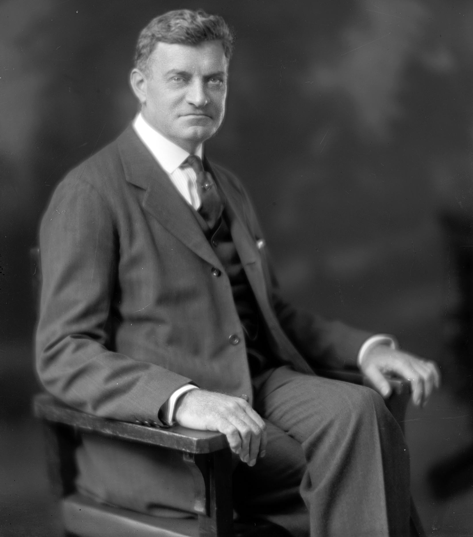 Richard Olney, US Representative from Massachusetts